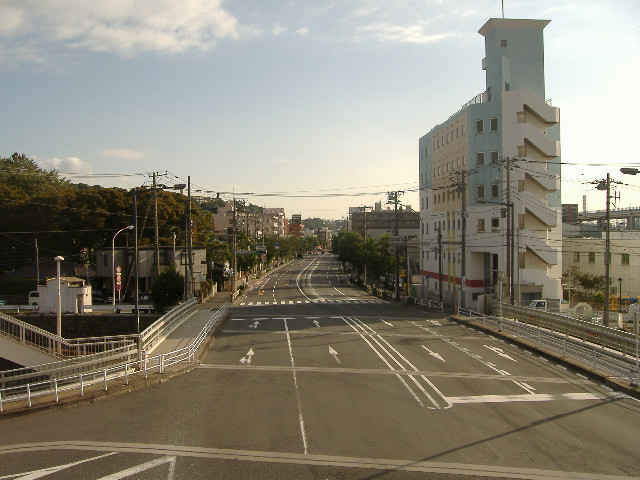 Yawatabashi (Yamashita-Honmoku-Isogo street)